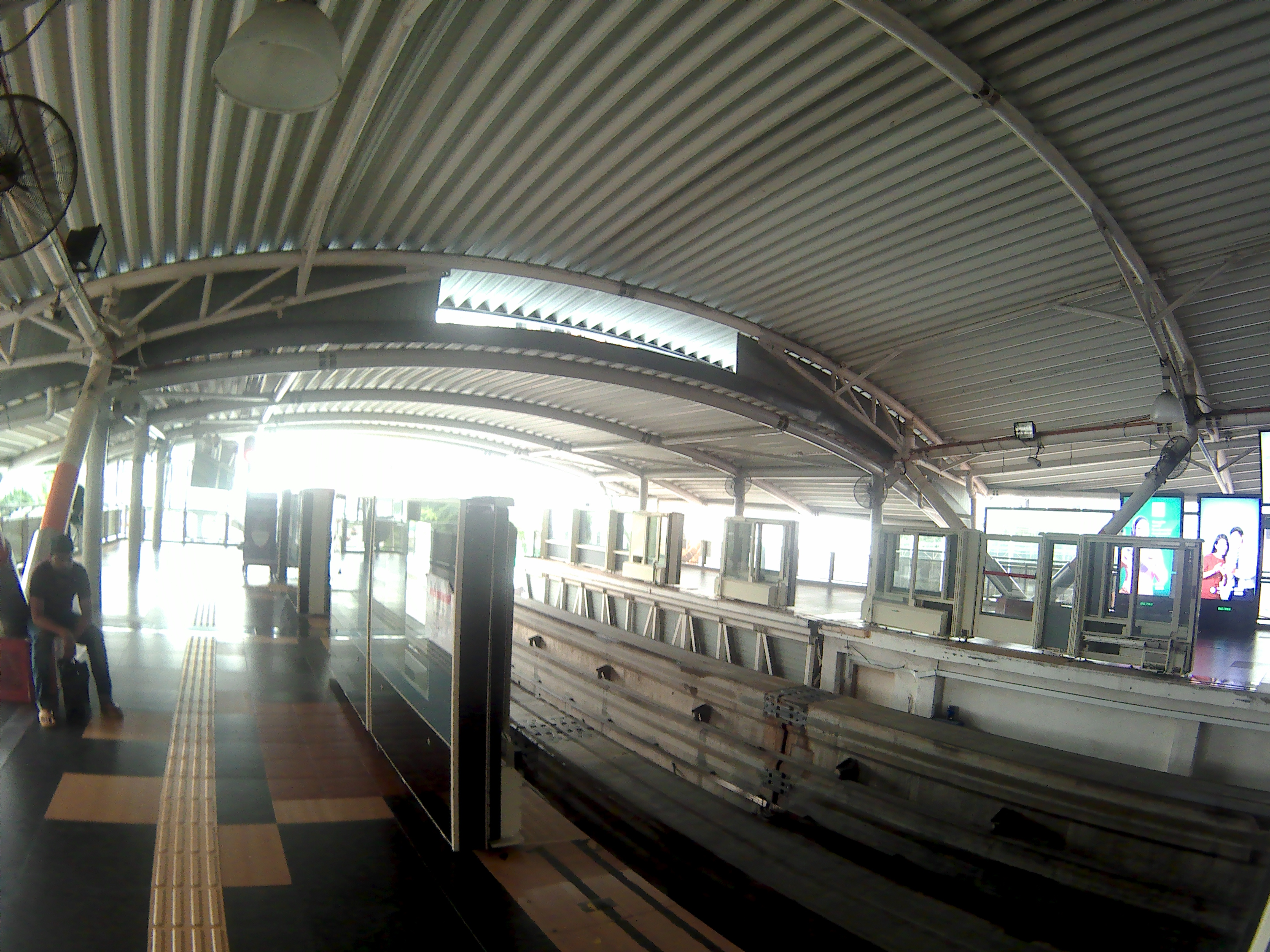 Imbi station platform